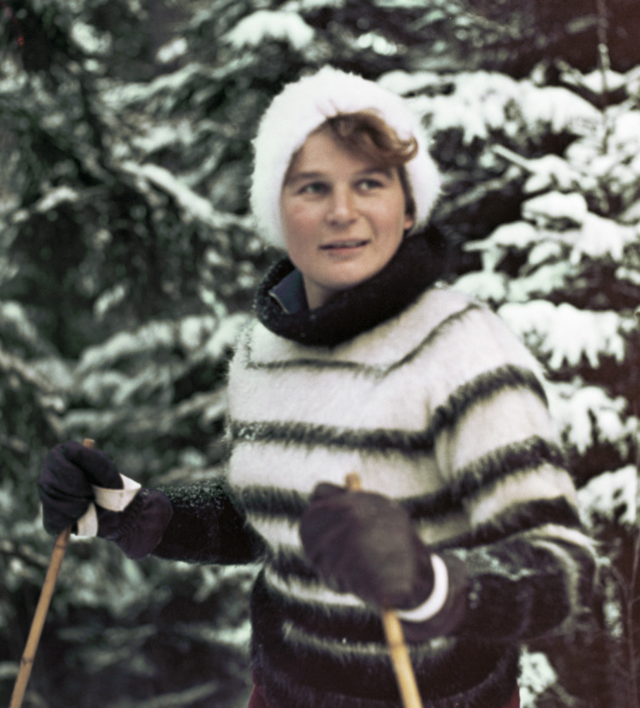 “Tereshkova, skiing”. Valentina Nikolayeva-Tereshkova, a pilot-cosmonaut and a Hero of the Soviet Union, on a ski trip.